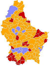 A map of the communes of Luxembourg (prior to the mergers of 1 January 2006) coloured by the plurality party in the 1994 election to the Chamber of Deputies. Orange represents the Christian Social People's Party, red represents the Luxembourg Socialist Workers' Party, and light blue represents the Democratic Party.